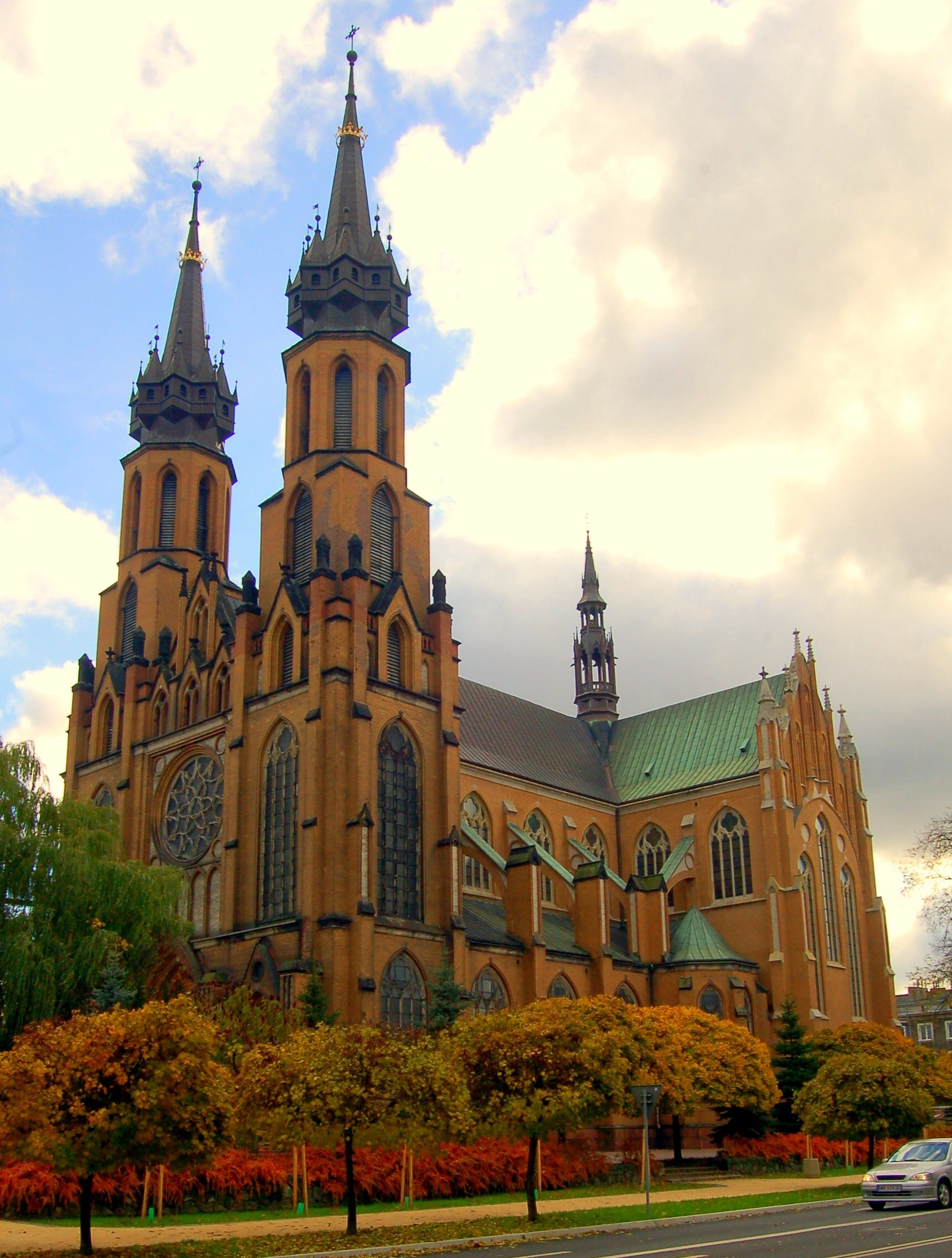 Saint Bobola Cathedral in Radom